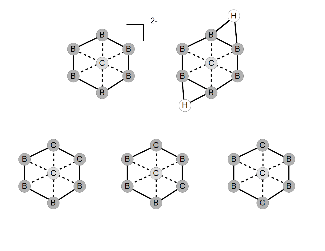 Planar hexacoordinate carbon species predicted to be viable (true minima with appreciable barriers to rearrangement) by high-level quantum chemical calculations